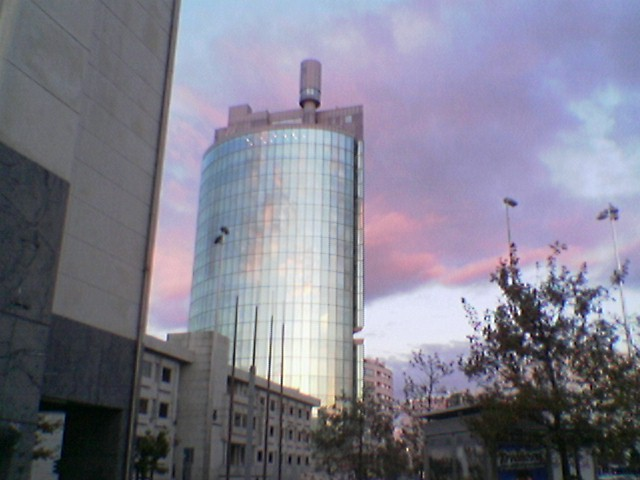 Photo of Maia City Hall at the start of the evening